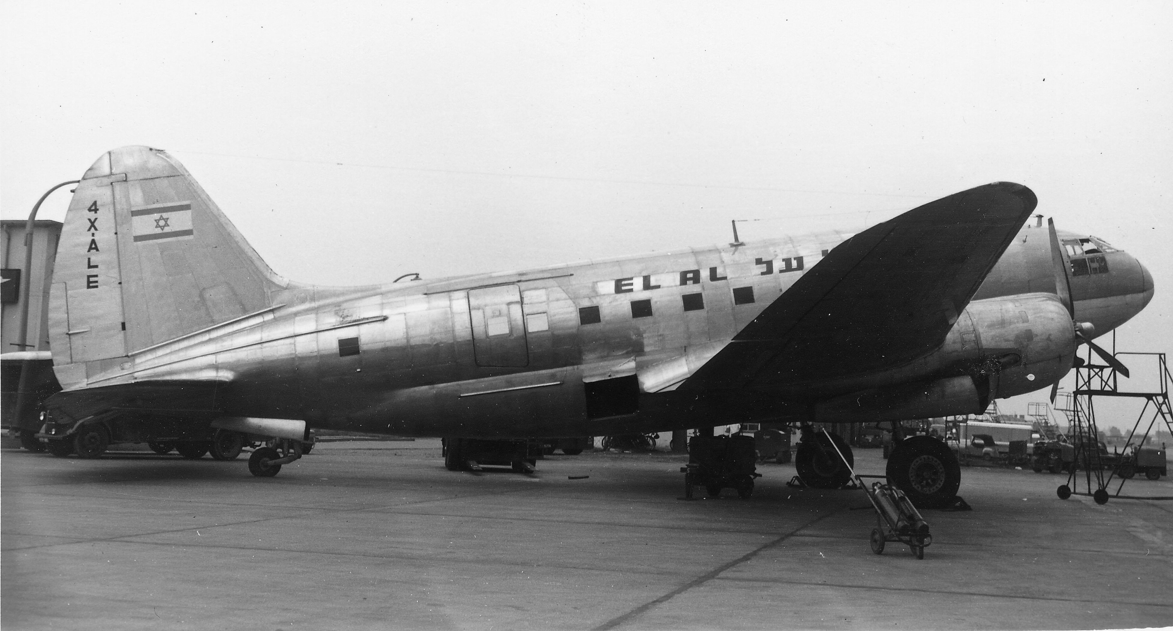 4X-ALE, C-46 Commando of El Al, later 4X-AQD